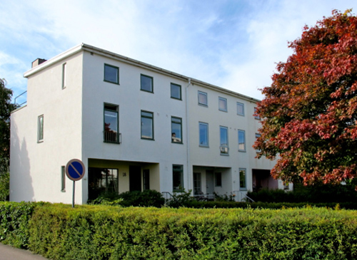 Terrace houses in Brödragatan in Örgryte in Göteborg, architect Ingrid Wallberg.